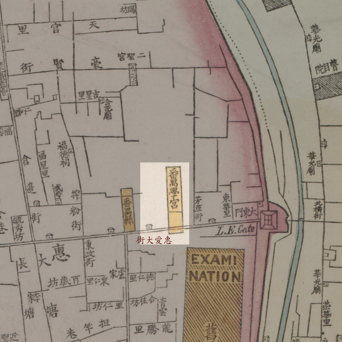 The map of location of Pan-yu College in Canton City. It is based on a map in public domain named Map of the city and entire suburbs of Canton by D. Vrooman in 1860.